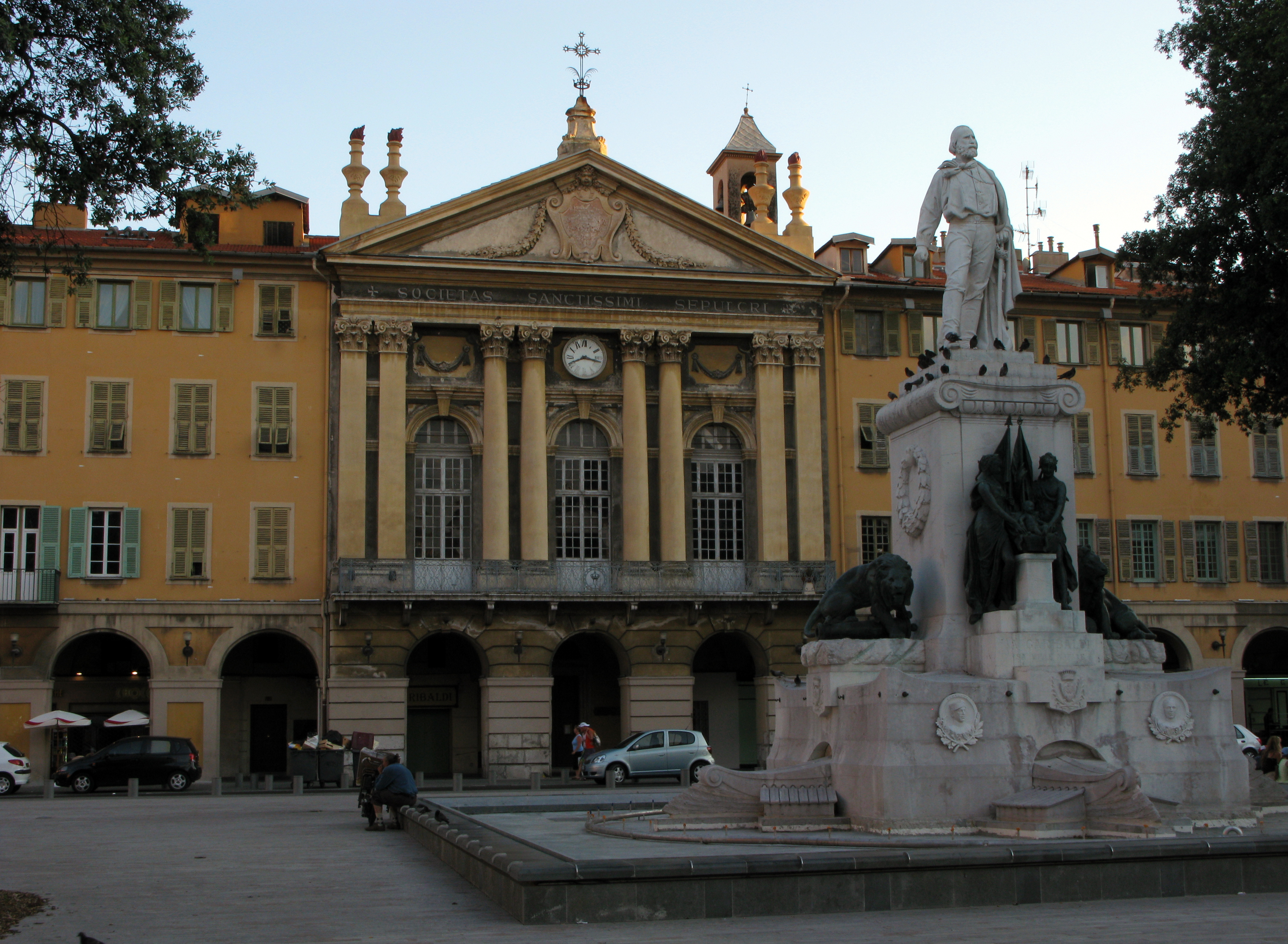 Photograph of place Garibaldi in Nice, France, with statue of Giuseppe Garibaldi in the foreground and the chapel of Saint Sépulcre in the background.